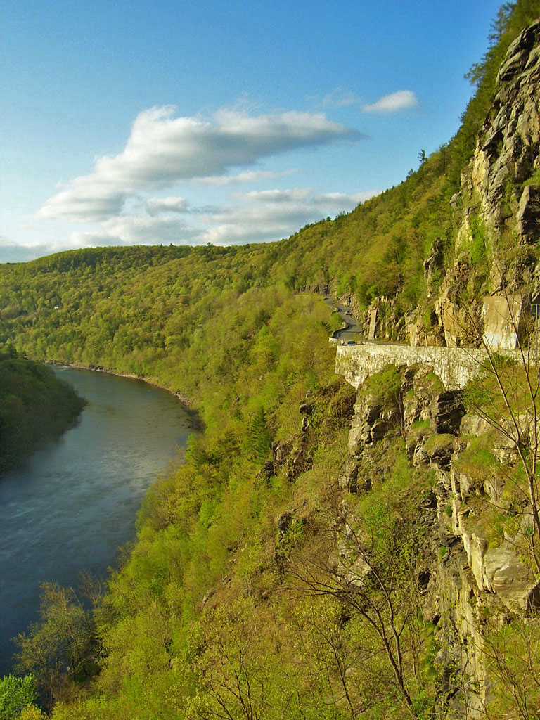 Photographed 2006-05-06 by Daniel Case